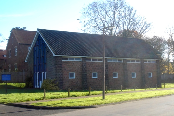 St Theodore of Canterbury Church, Gossops Green, Crawley, West Sussex, England. A Roman Catholic church within the Diocese of Arundel and Brighton and the Parish of Crawley.